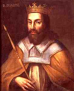 Rei de portugal